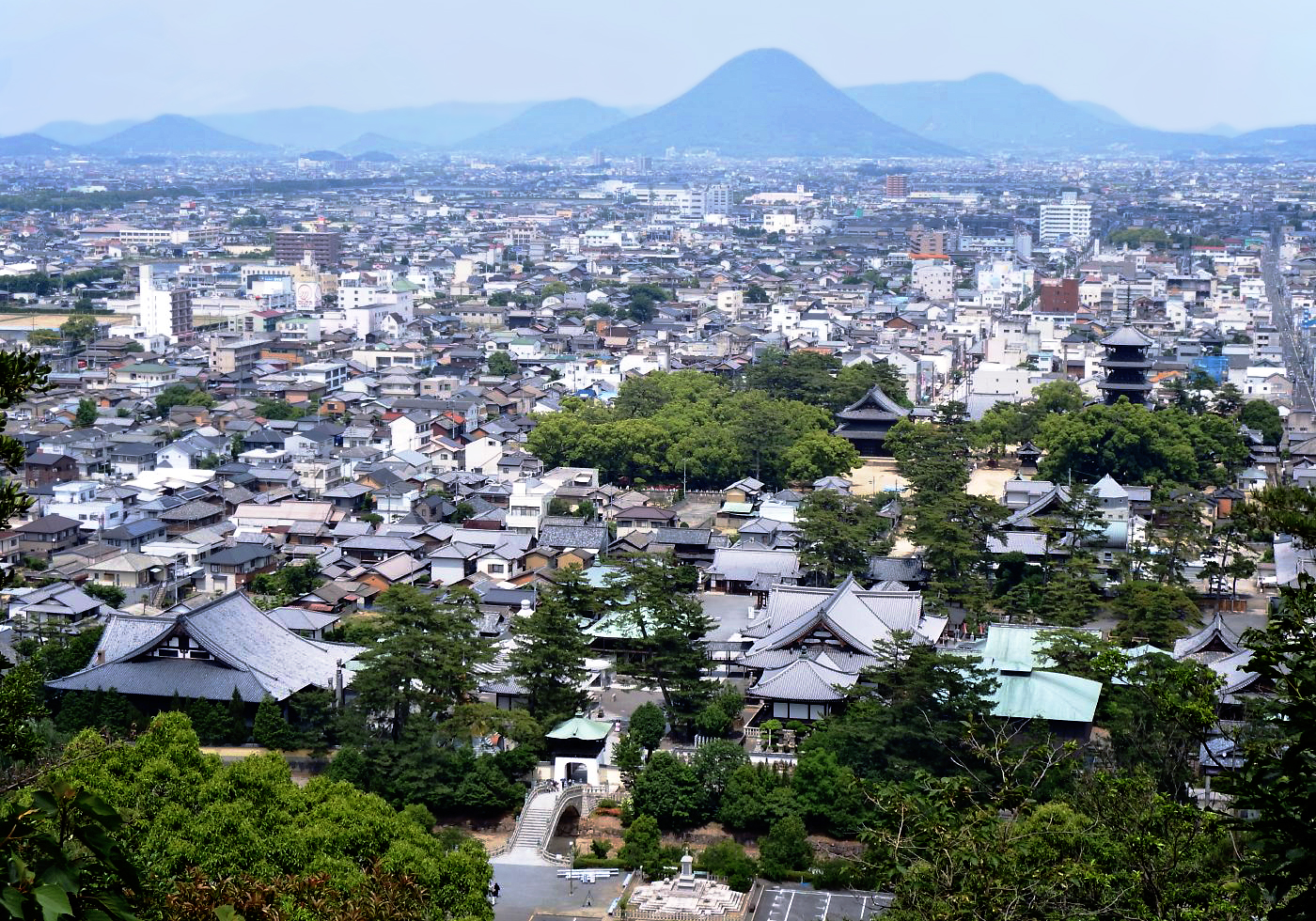 Zentsū-ji view from Mount Koushiki in Zentsūji City, Kagawa prefecture, Japan.